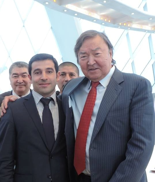 Fuzuli Magid and Oljas Suleymenov